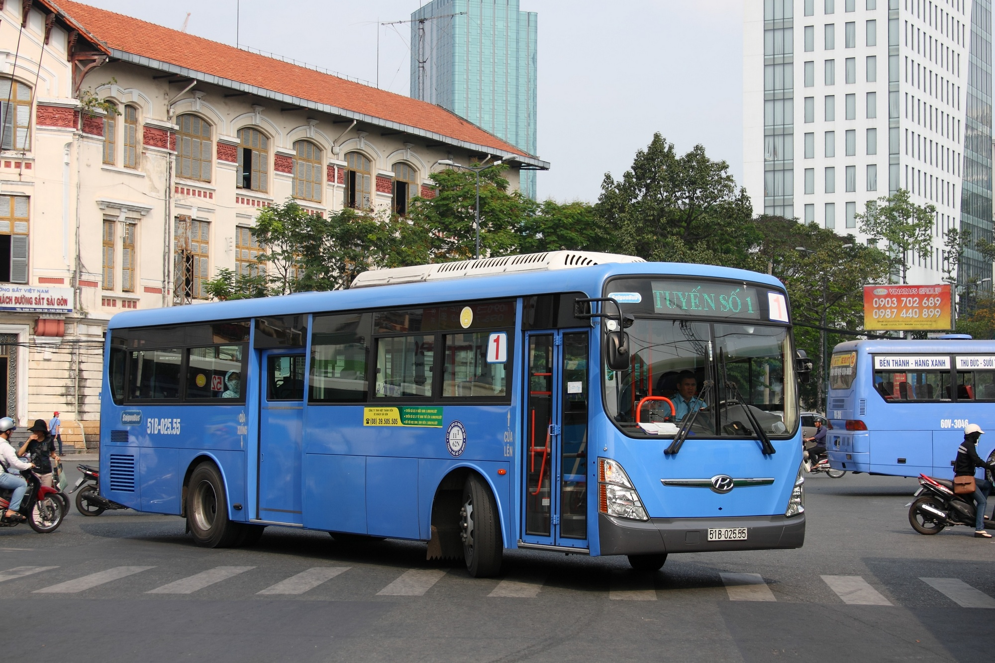 Bus in Ho Chi Minh City - Hyundai Super AeroCity